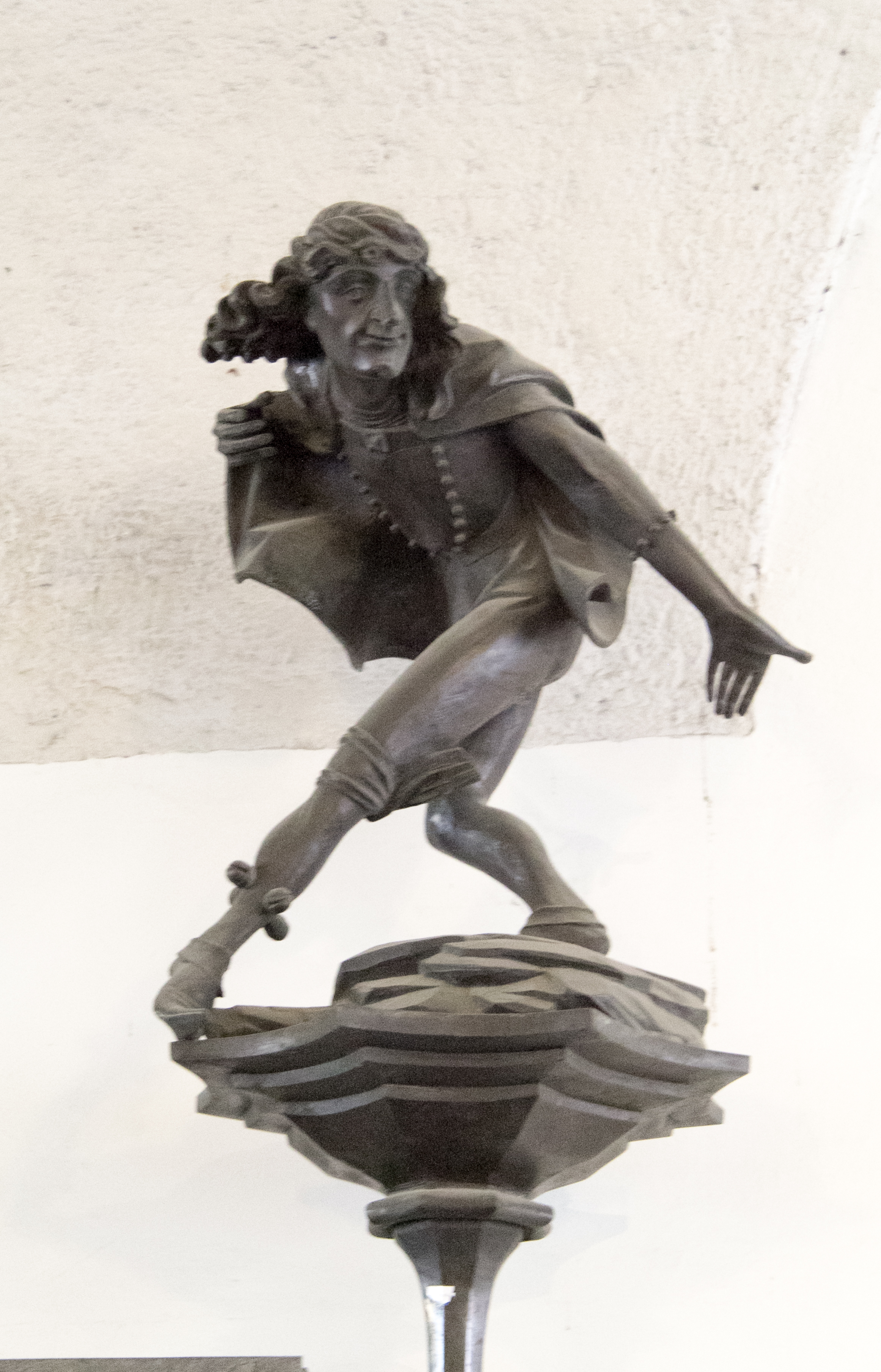 Figure of a Moriso dancer at the Entrance of Altes Rathaus in Munich.